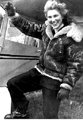 Cropped version of Photograph of the Danish pilot Vera Stodl in her "bomb jacket" while working for the RAF's Air Transport Auxiliary in World War II.